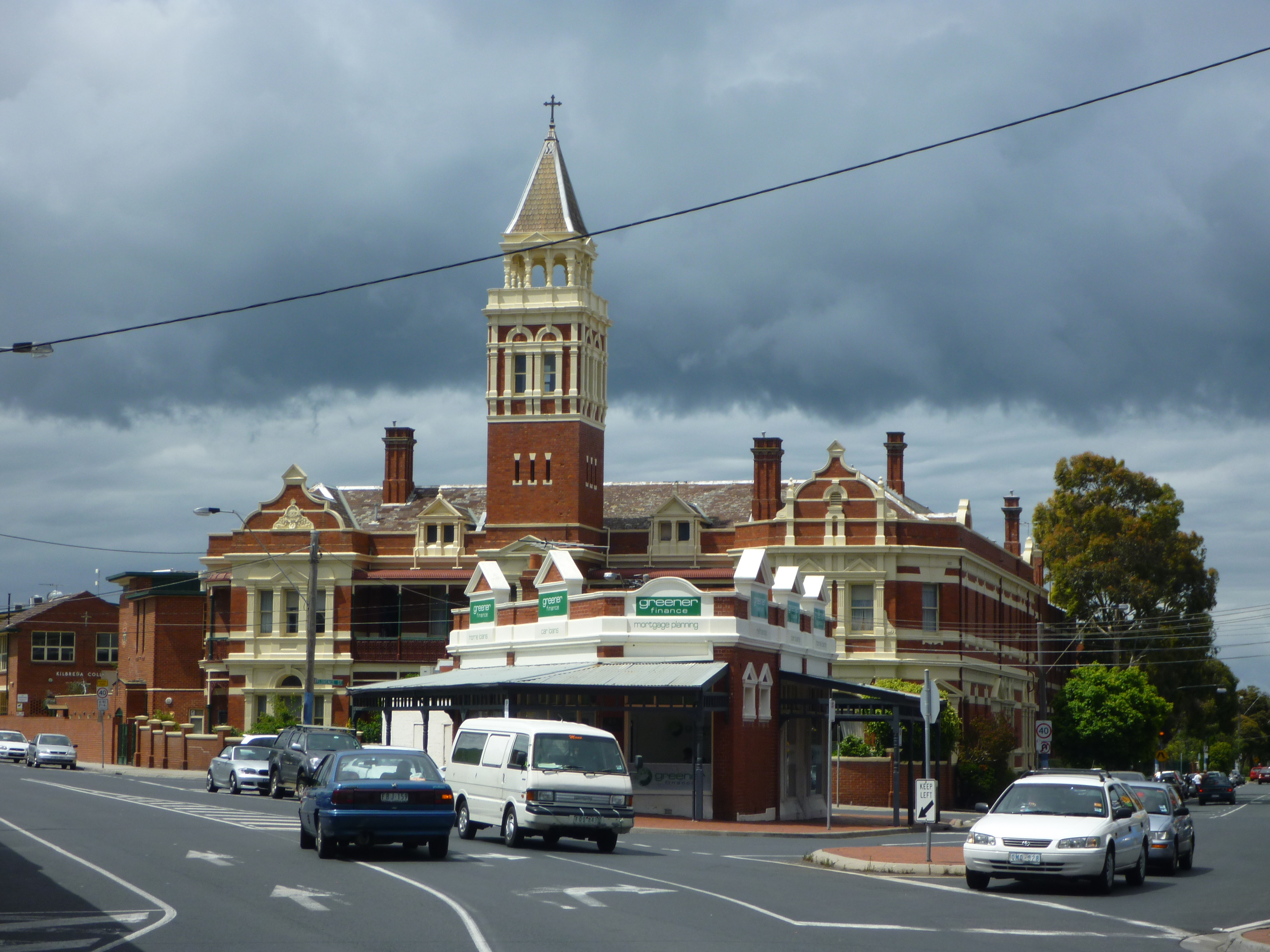 Mentone Vic Australia-Dragan Jankovic Fazan